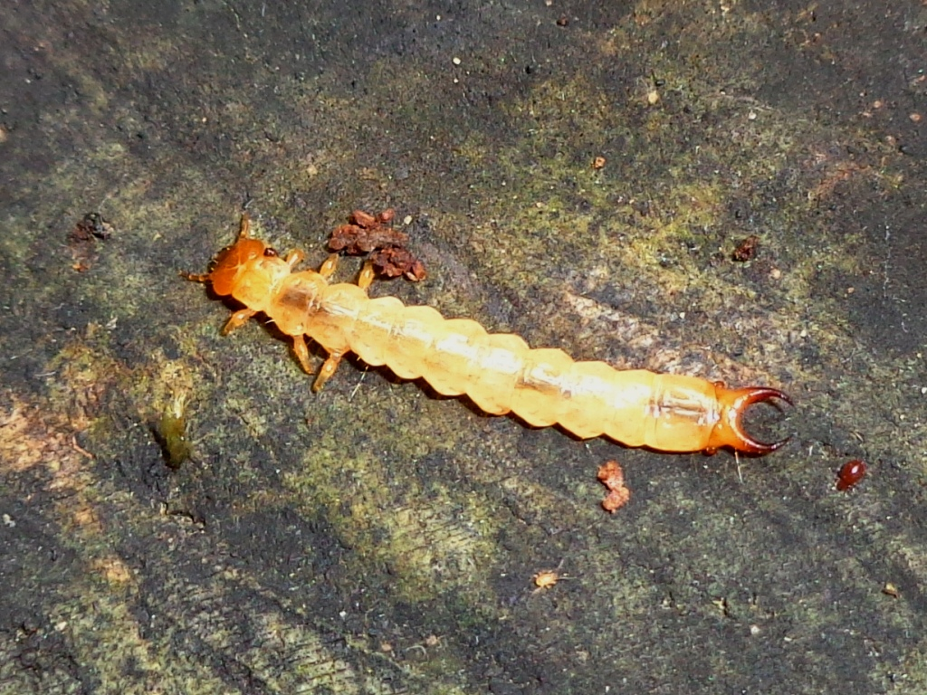 Larvae of Schizotus pectinicornis.